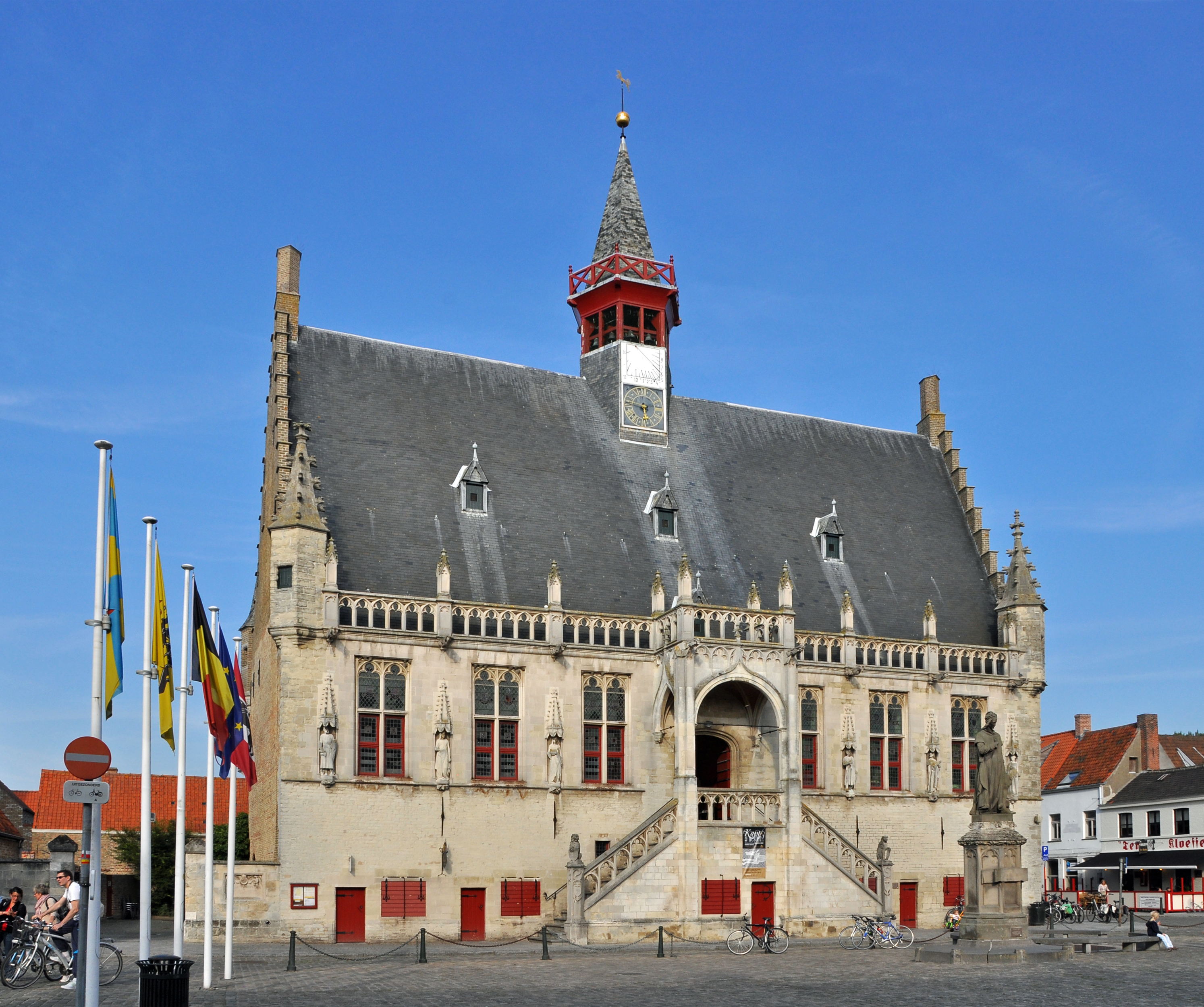 Damme (Belgium): town hall